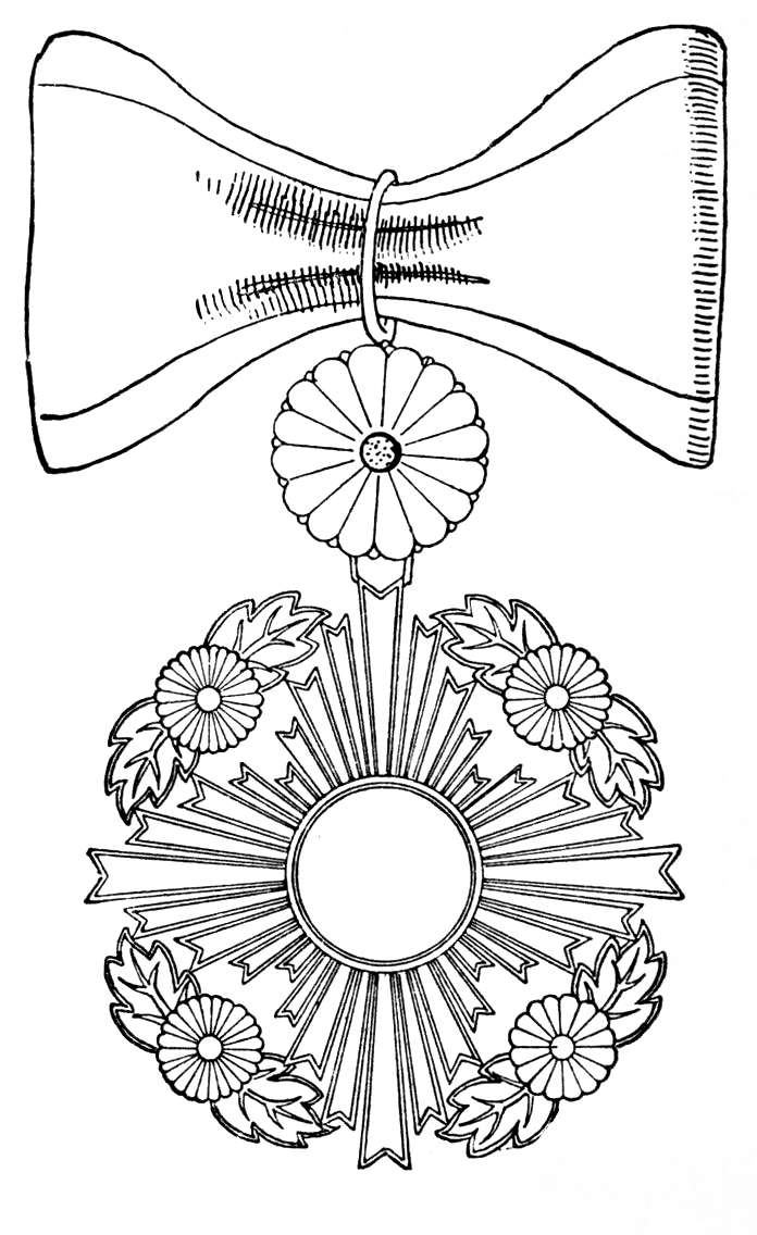 Order of the Chrysanthemum. Image from the book "Japan And Japanese" (1902). Page 45